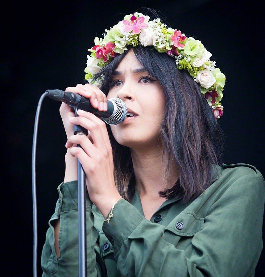 Maria Mena at the main stage during Stavernfestivalen in Stavern on 07. July 2016. Lineup:Maria Mena (vocal)Unidentified (guitar)Unidentified (bass)Unidentified (keyboard)Unidentified (keyboard)Unidentified (drums)